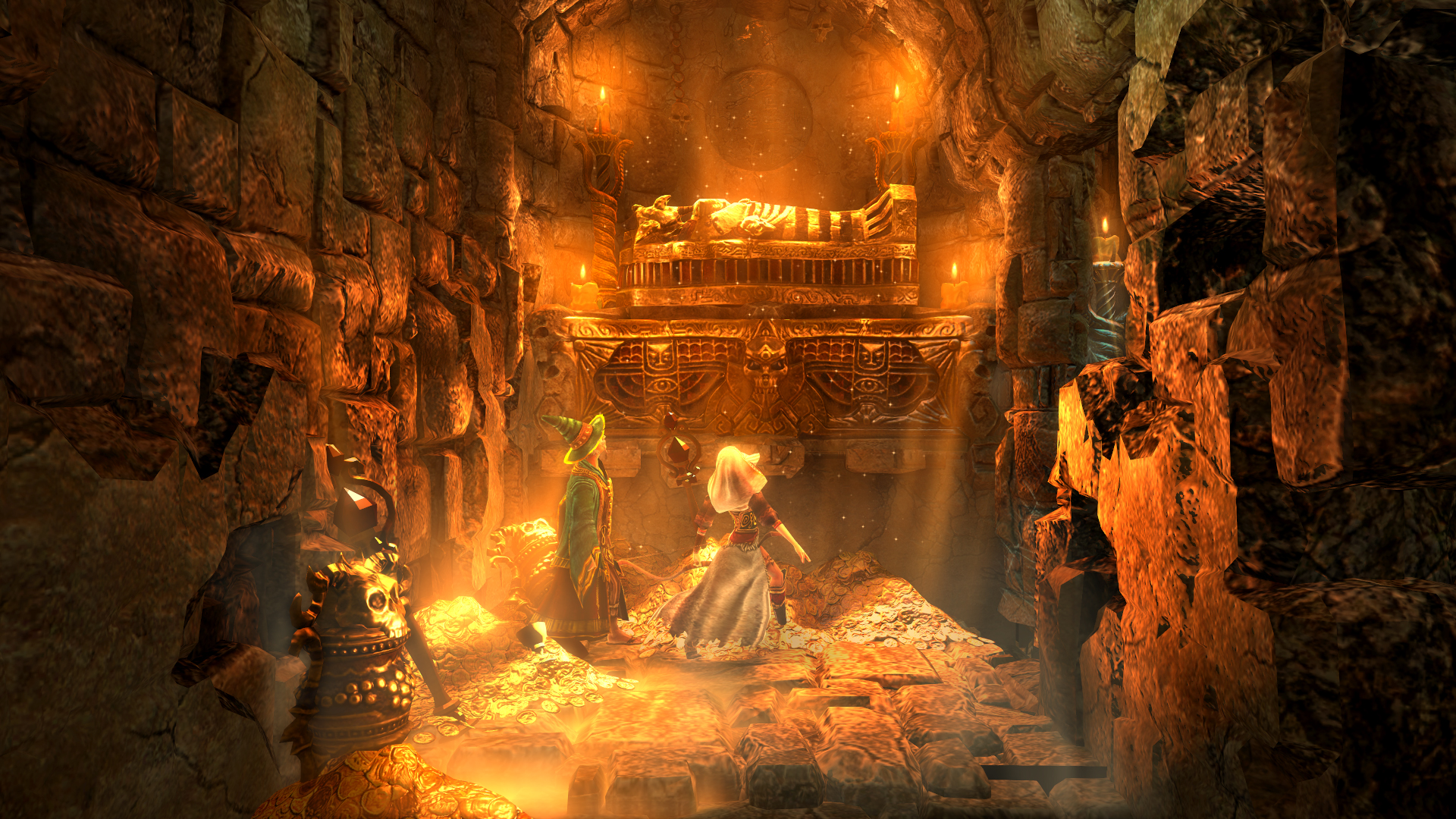 Trine 2 screenshot. Released in 2011, the game was developed by Frozenbyte. Amadeus and Zoya marvel at the treasure in this scene from the Deadly Dustland chapter, part of the Goblin Menace DLC pack released in 2012.